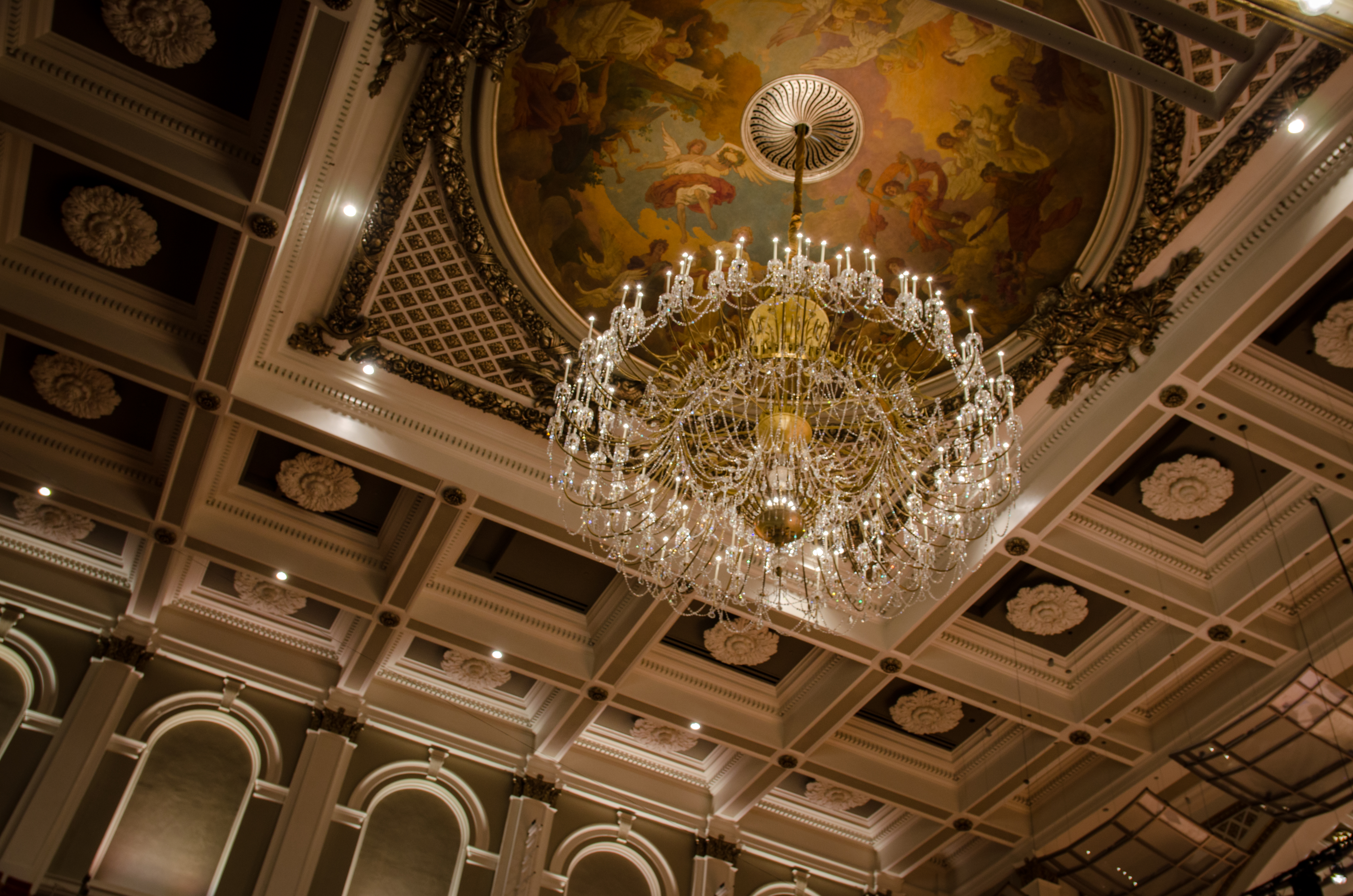 Chandelier inside Cincinnati Music Hall's Springer Auditorium - 2017